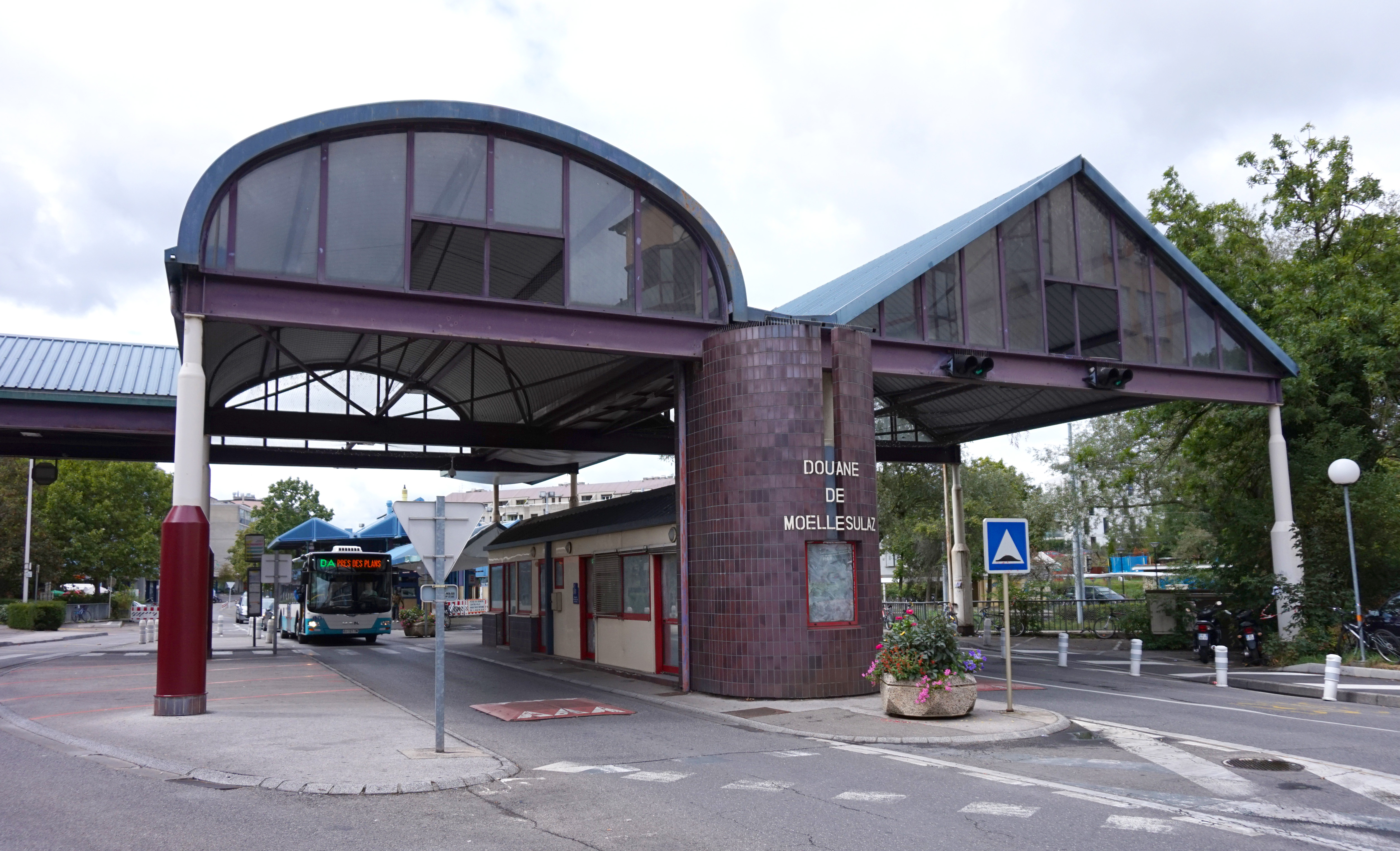 Border of France and Switzerland on the street Rue de Geneve.This photograph was taken with a Sony ILCE-5000